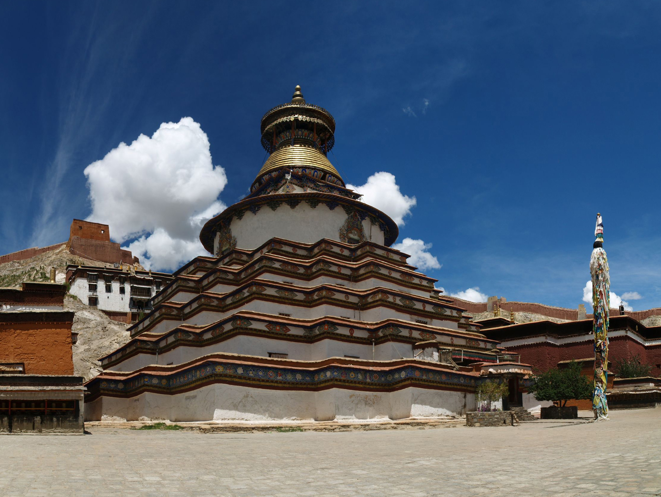 The Pango Chorten, Kumbum Stupa, in Gyantse, Tibet